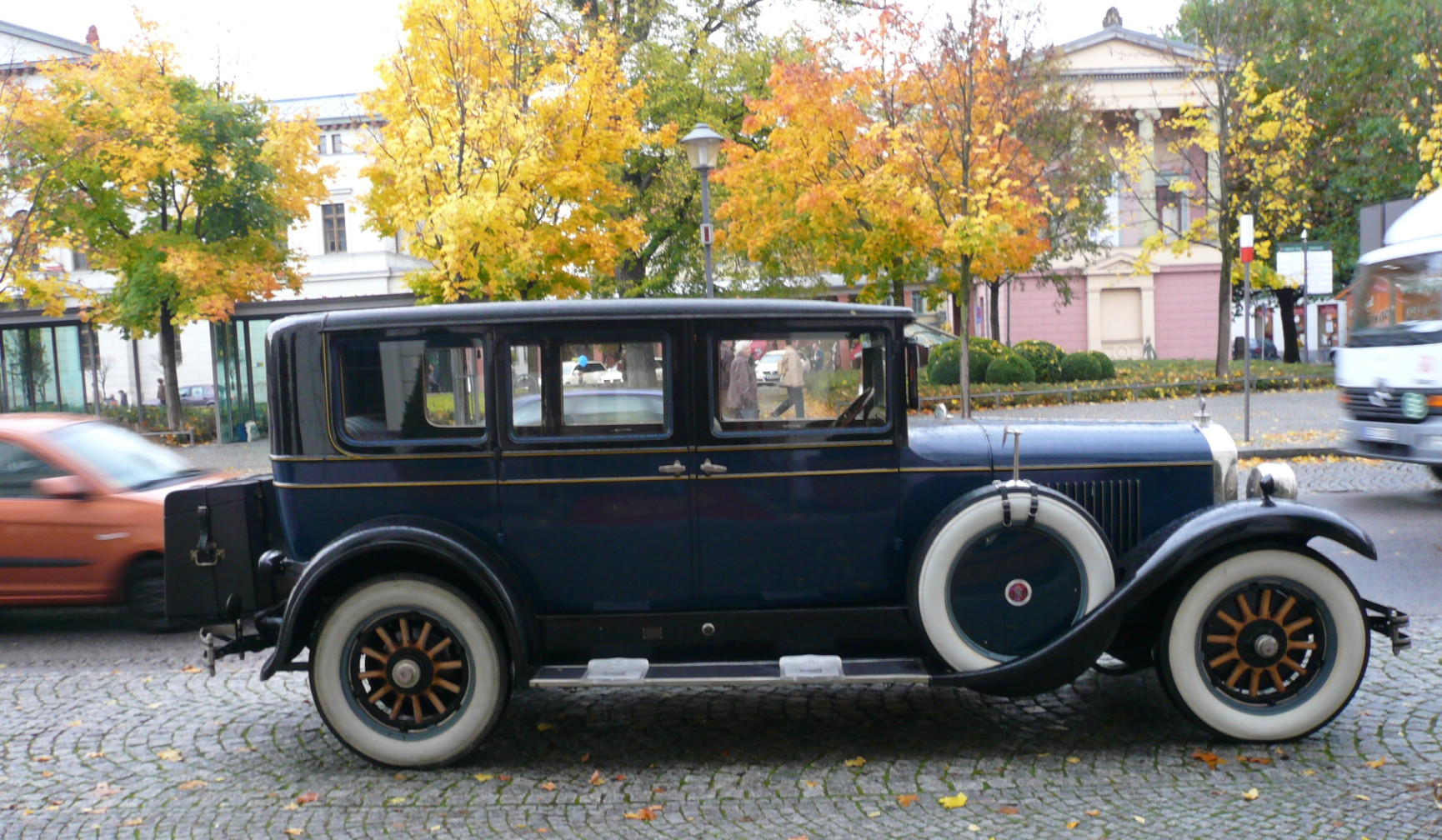 Cadillac Modell 314 -Sedan- built:1926 Side seen at Weimar